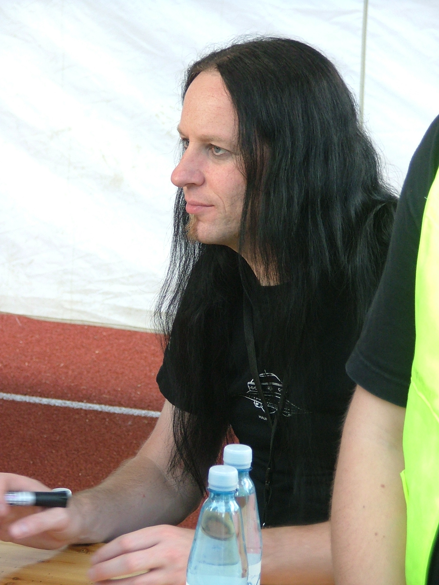 Dave Pybus of English metal band Cradle of Filth in Kuopio at Rockcock-musicfestival